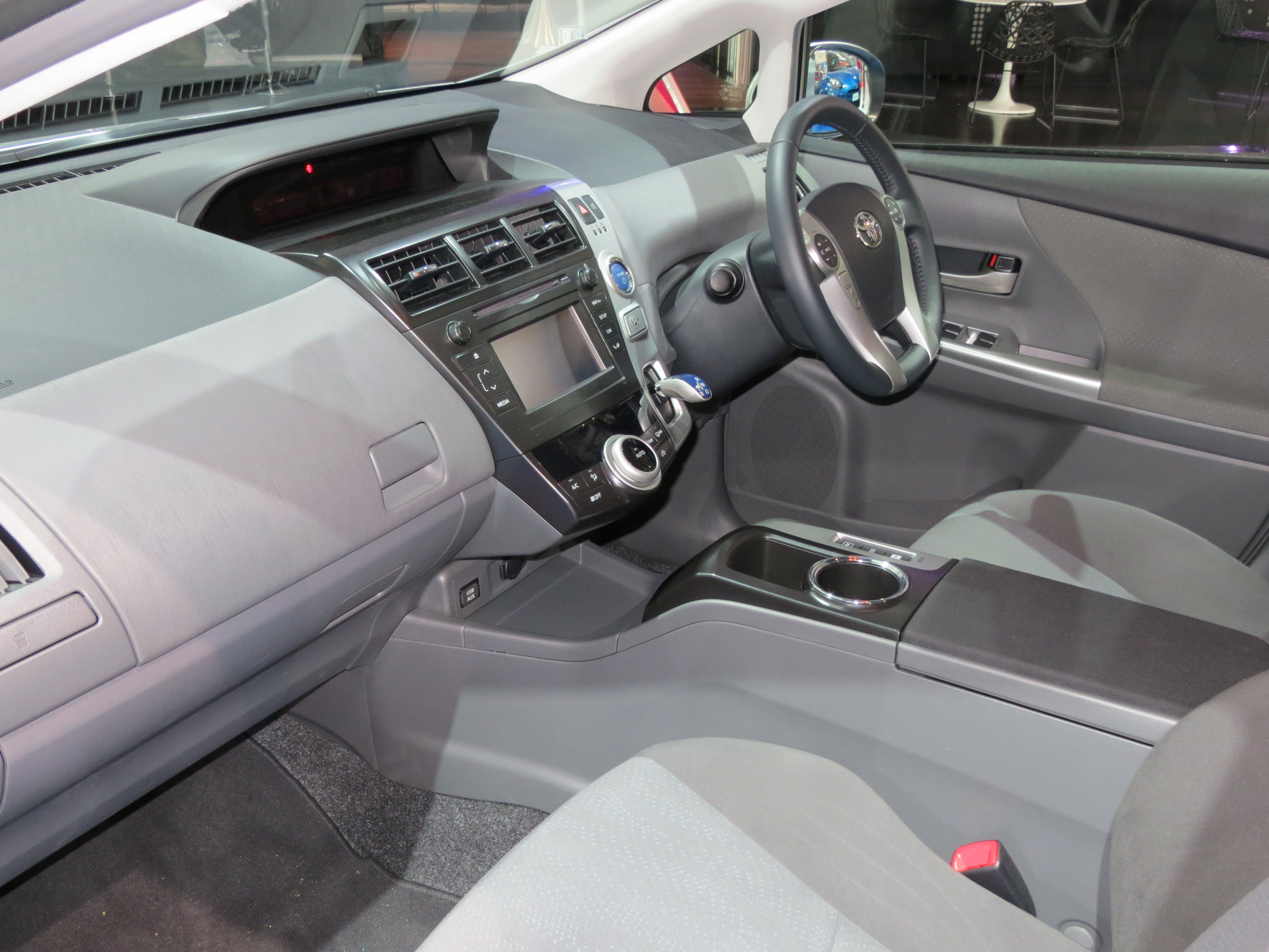 2012 Toyota Prius v (ZVW40R) wagon. Photographed at the 2012 Australian International Motor Show, Sydney, New South Wales, Australia.